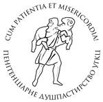 This logo is an official symbol of the Penitentiary Pastoral Care of the Ukrainian Greek-Catholic Church